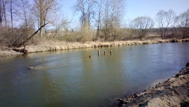 The former bridge remains over the river Wkra at Kołoząb 2015